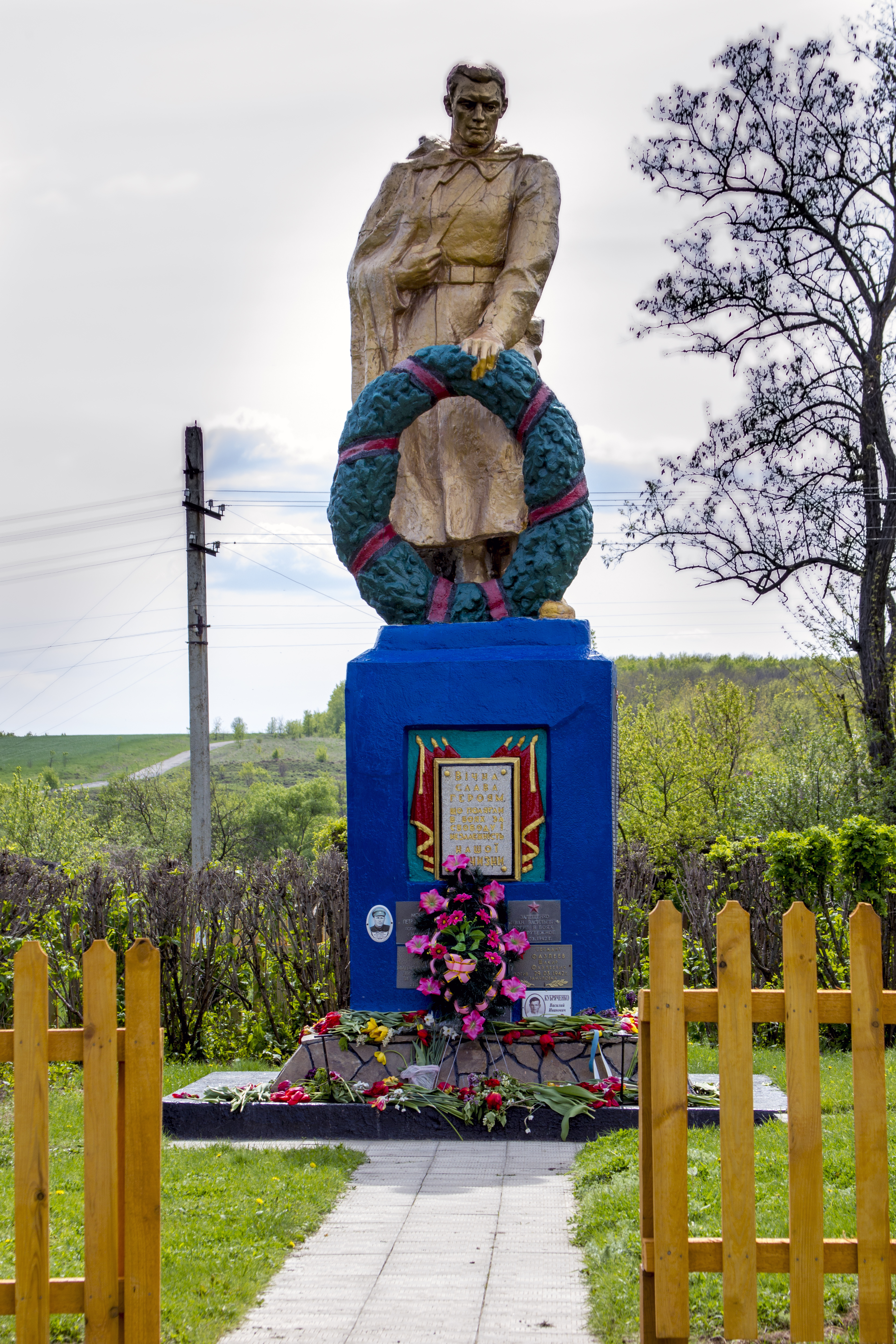 The Monument to the Heroes of the Second World War (1)